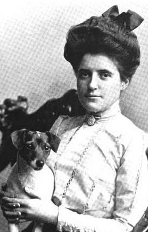 A young white woman, seated, wearing a high-necked white blouse with a cameo pin, her dark hair in an updo; she is holding a small short-haired dog.